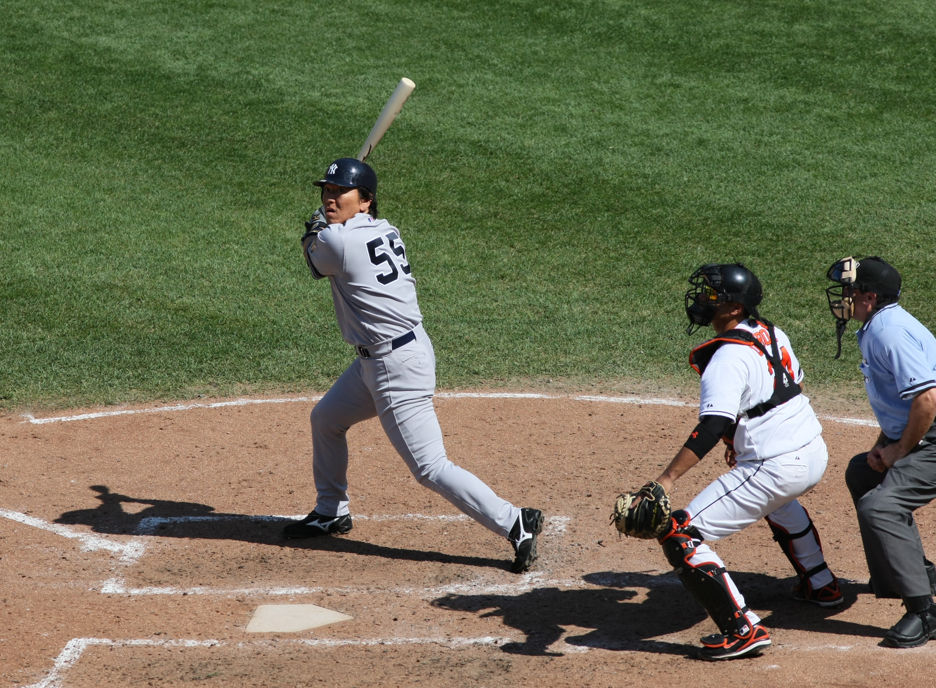 Hideki Matsui Reprint from Flickr